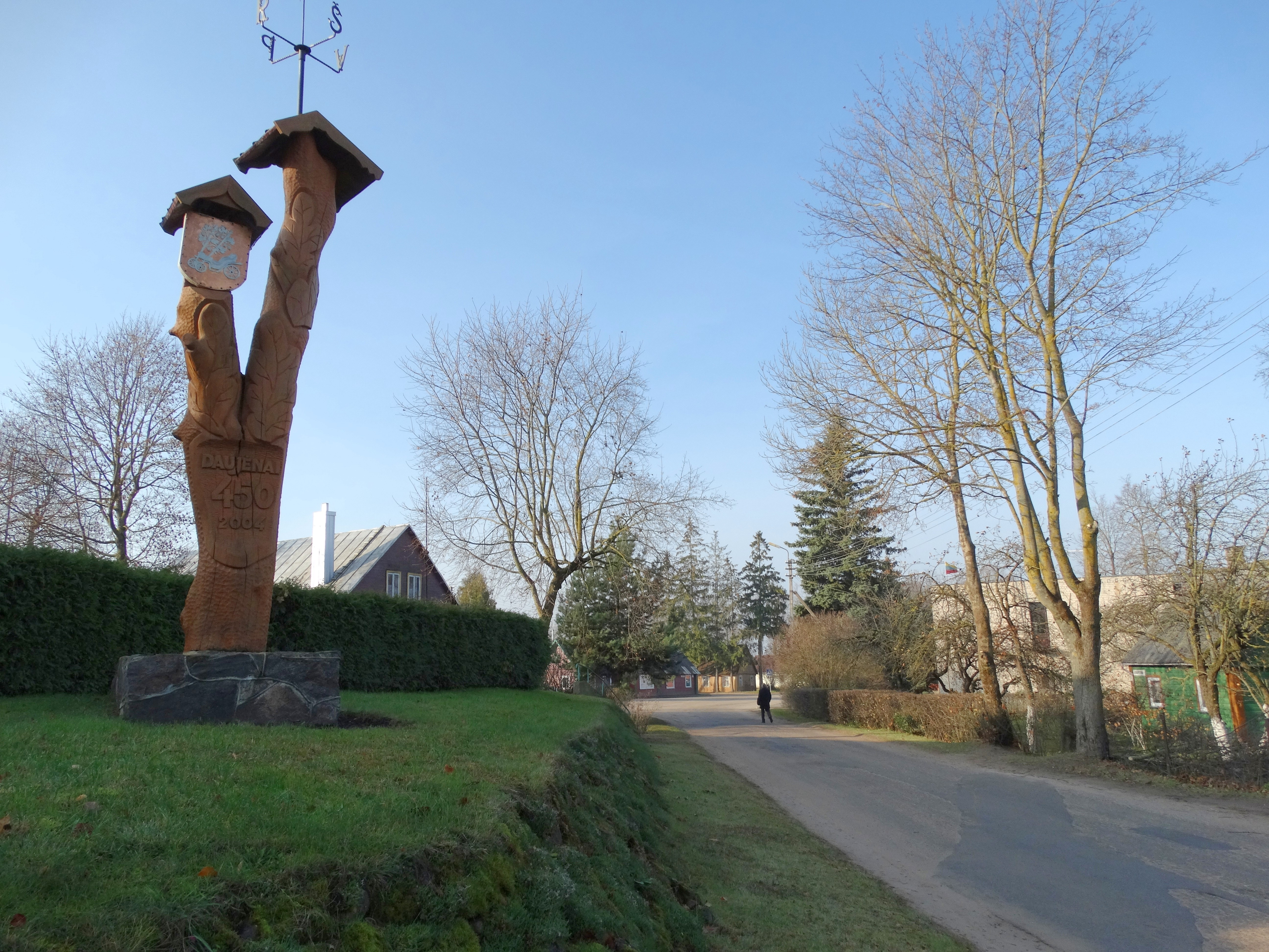 Daujėnai 450 years, Pasvalys District, Lithuania